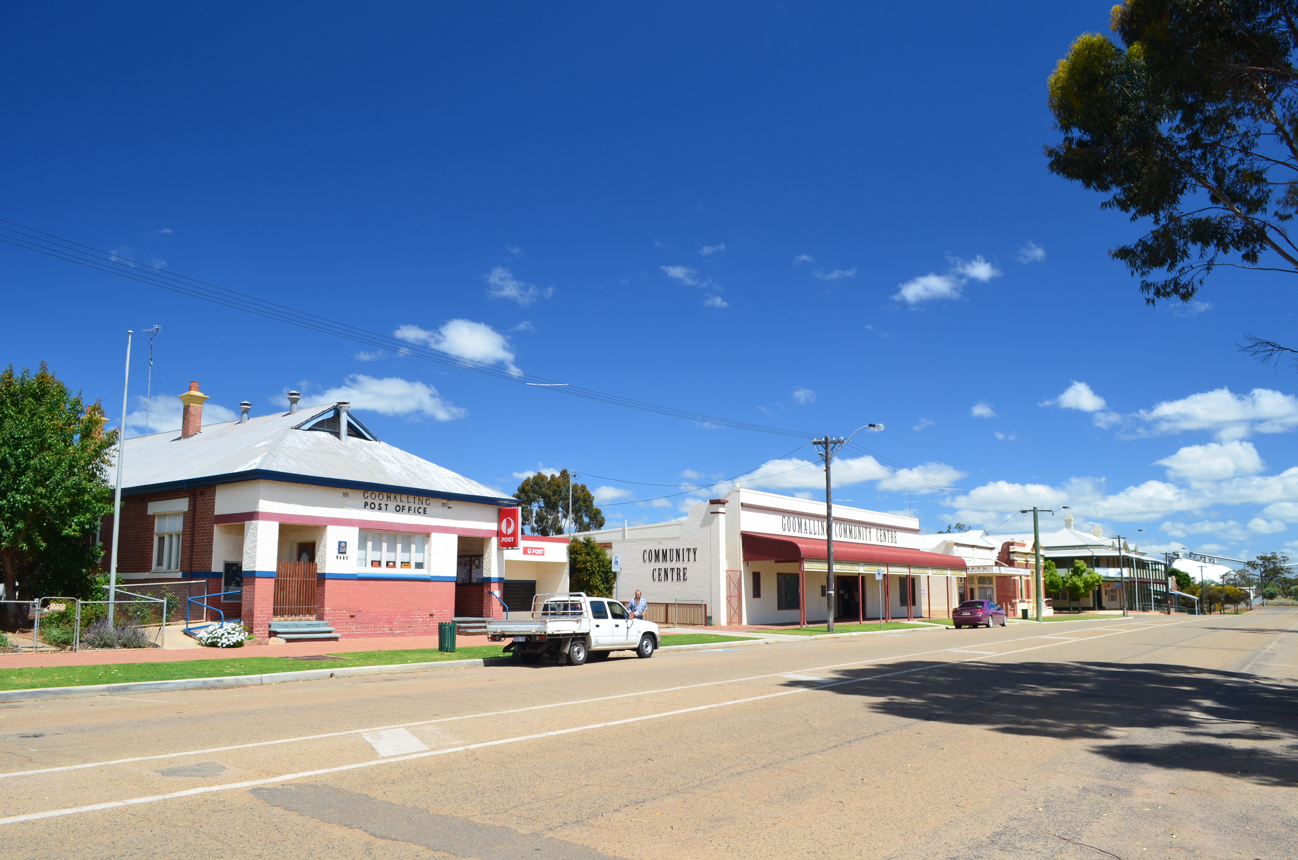 View of Railway Terrace, Goomalling, Western Australia. From left to right are the Post Office, the Community Centre, the former Goomalling Road Board office, the Goomalling Tavern and the wheat bin.